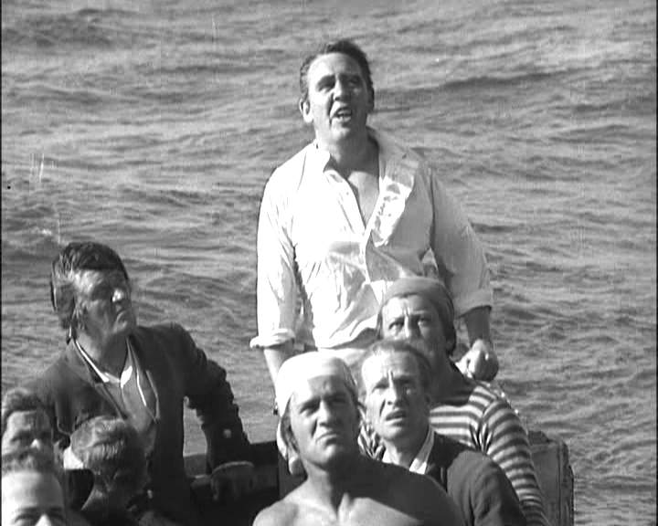 Charles Laughton as Captain Bligh in a screenshot from the trailer for the film Mutiny on the Bounty.